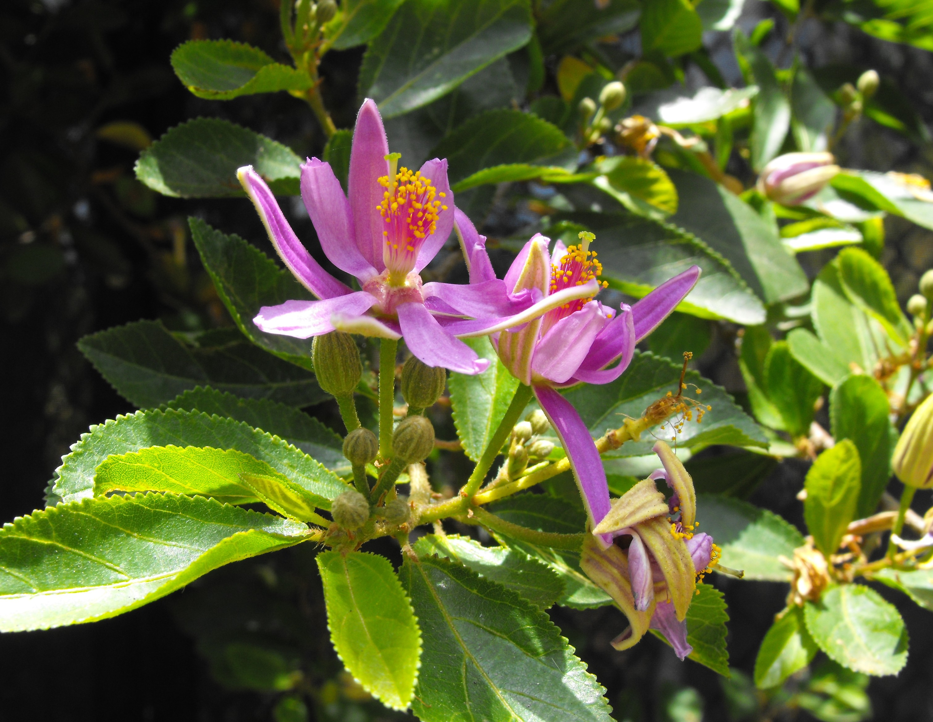 Grewia caffra — Lavender starflower. At the San Diego Zoo, California, USA.